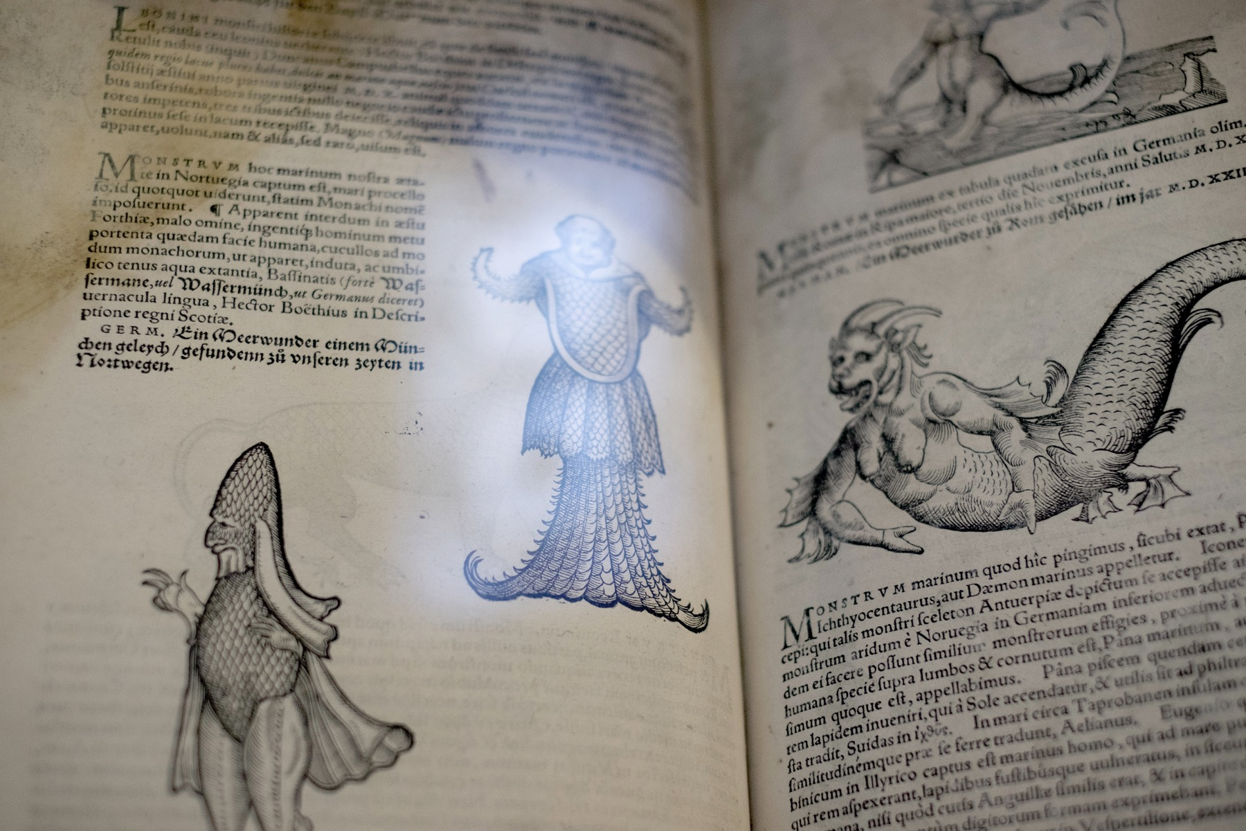 Fantastical creatures in The Portico Library's copy of Conrad Gessner's Historiae Animalium, 1560